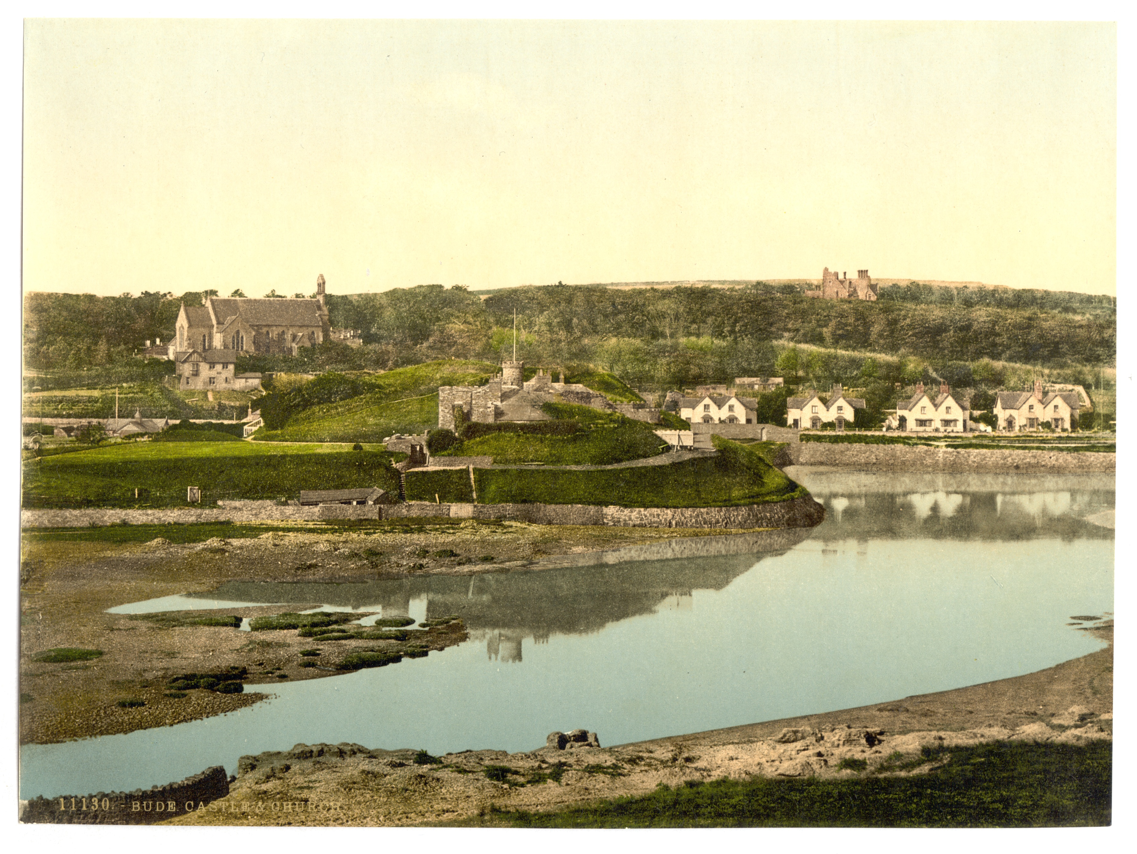 Forms part of: Views of the British Isles, in the Photochrom print collection.; Print no. "11130".; Title from the Detroit Publishing Co., Catalogue J-foreign section, Detroit, Mich. : Detroit Publishing Company, 1905.; More information about the Photochrom Print Collection is available at